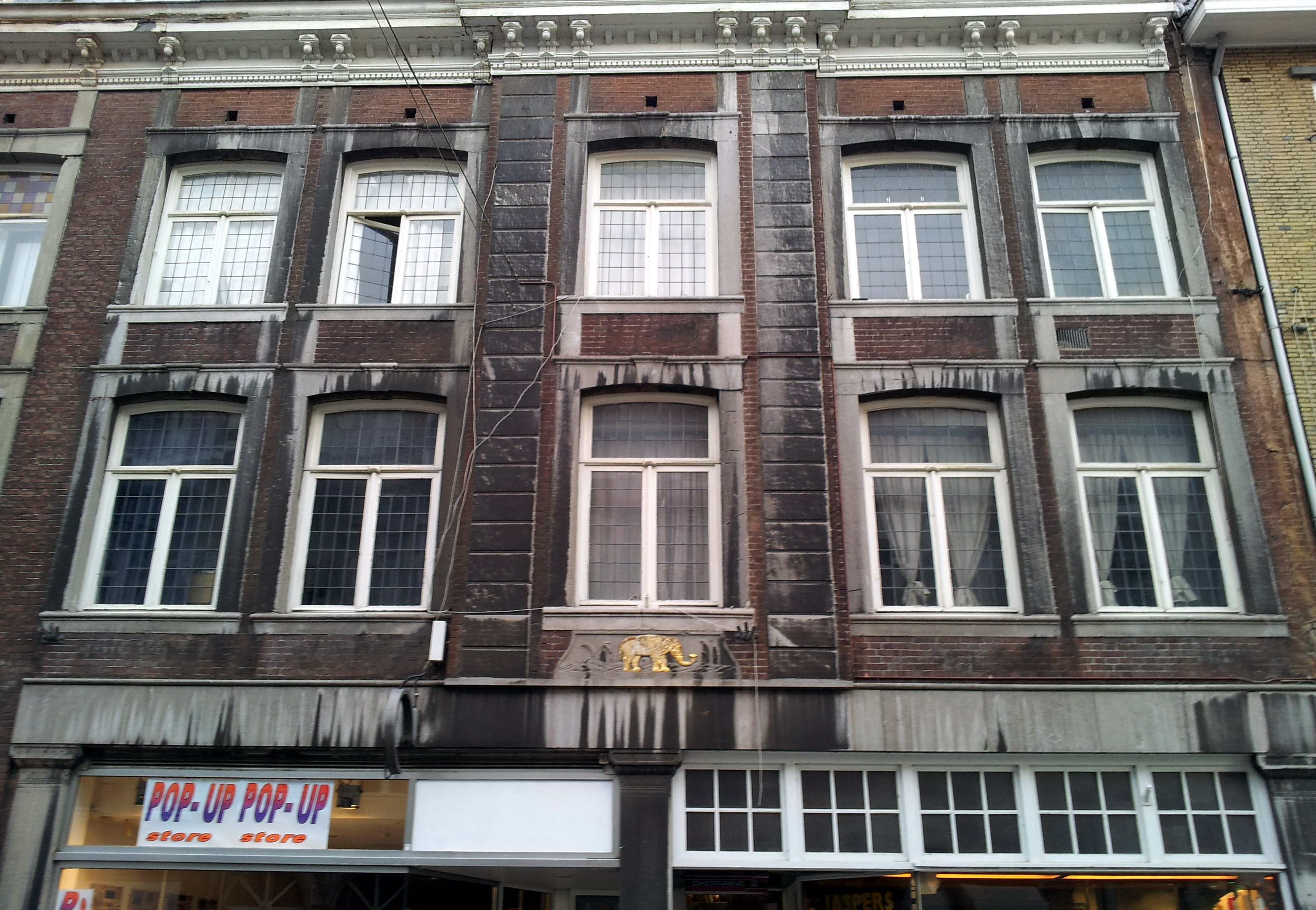 Maastricht, the Netherlands. View of two historic gables on Wycker Brugstraat in the district of Wyck on the East bank of the river Meuse.